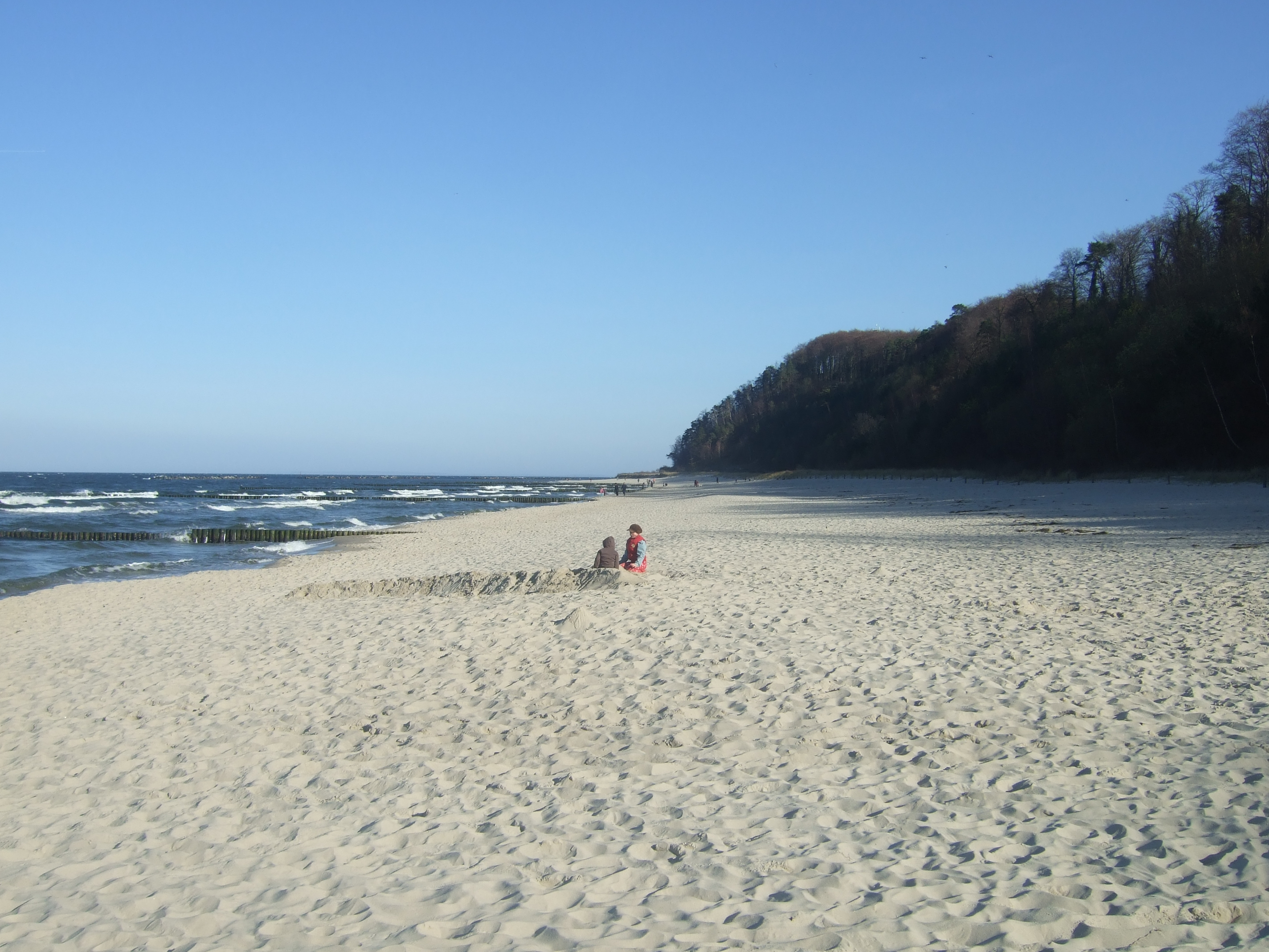 Baltic Sea beach in Koserow, Mecklenburg-Vorpommern, Germany viewing southeast to Streckelsberg hill.